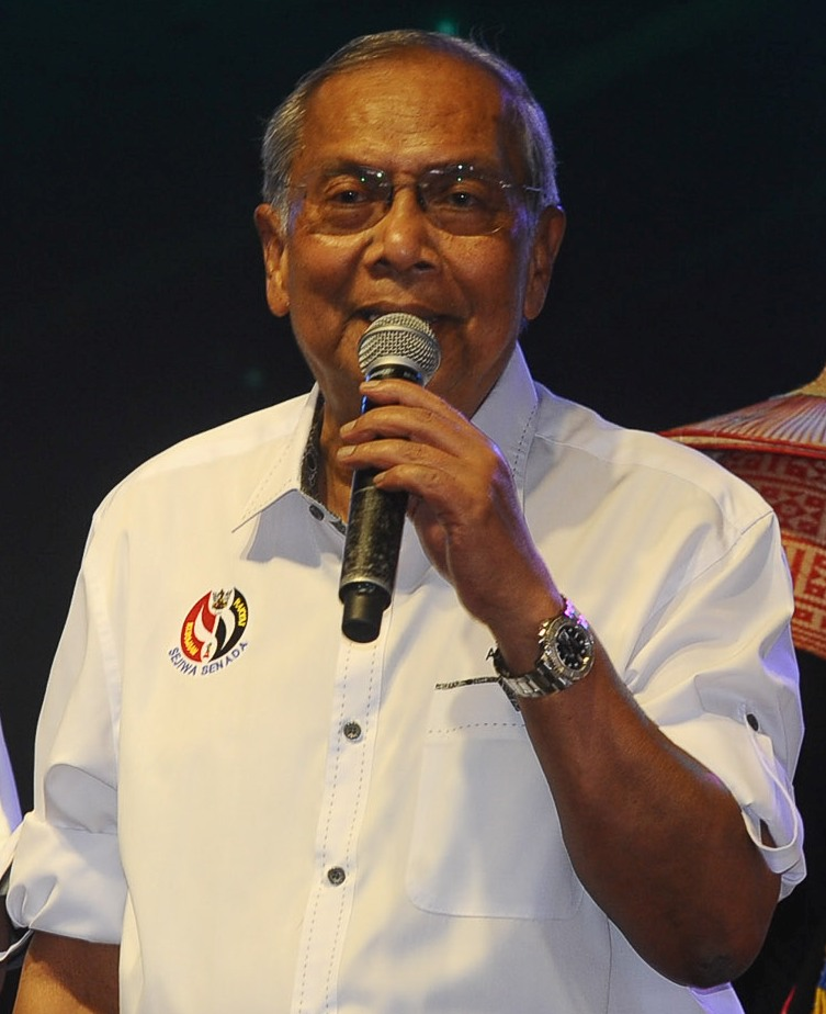 Adenan Satem during the "Sejiwa Senada" programme at Kota Samarahan, Sarawak.